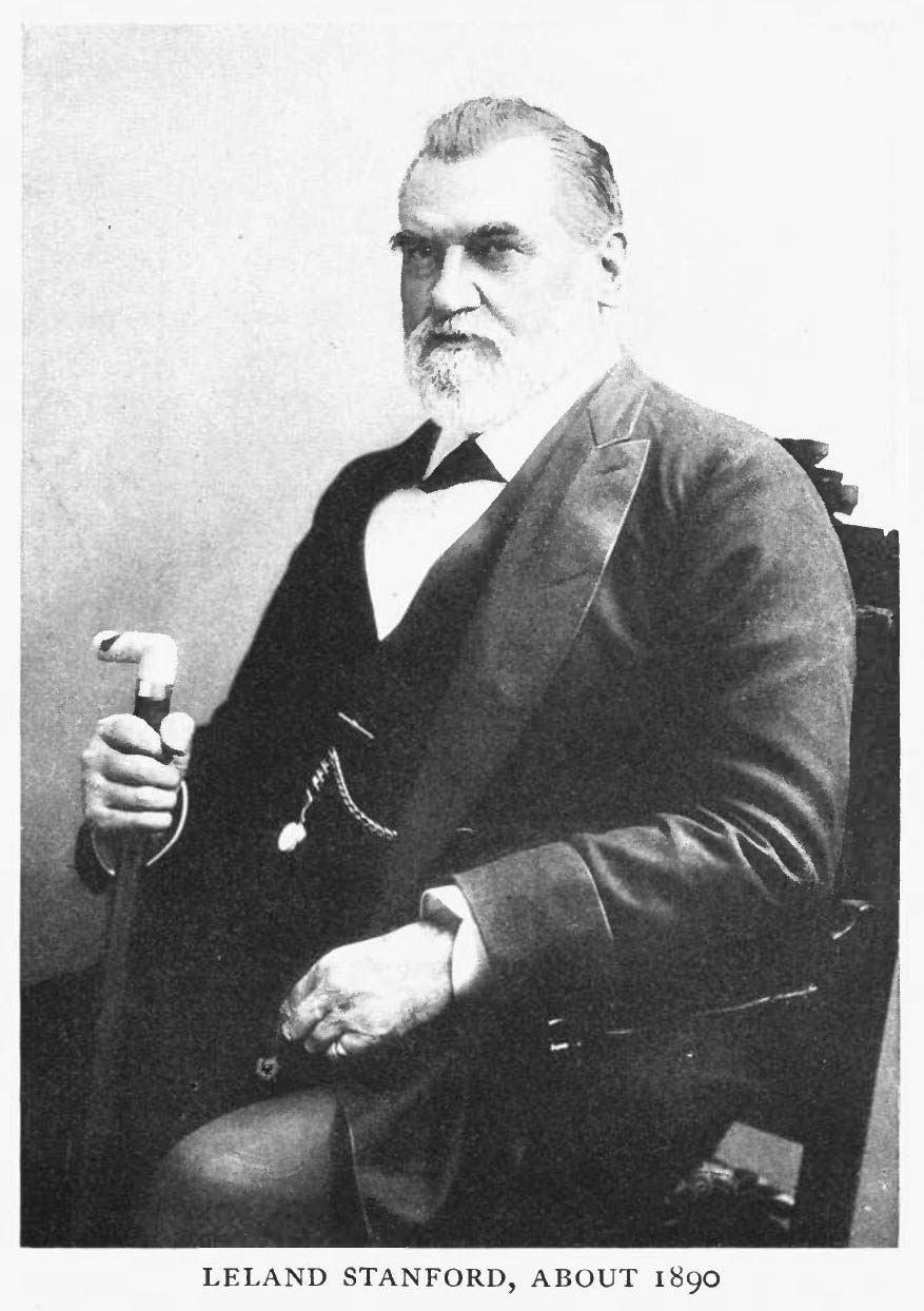 Portrait of Leland Stanford (1890) from Days of a Man the autobiography of David Starr Jordan 1922